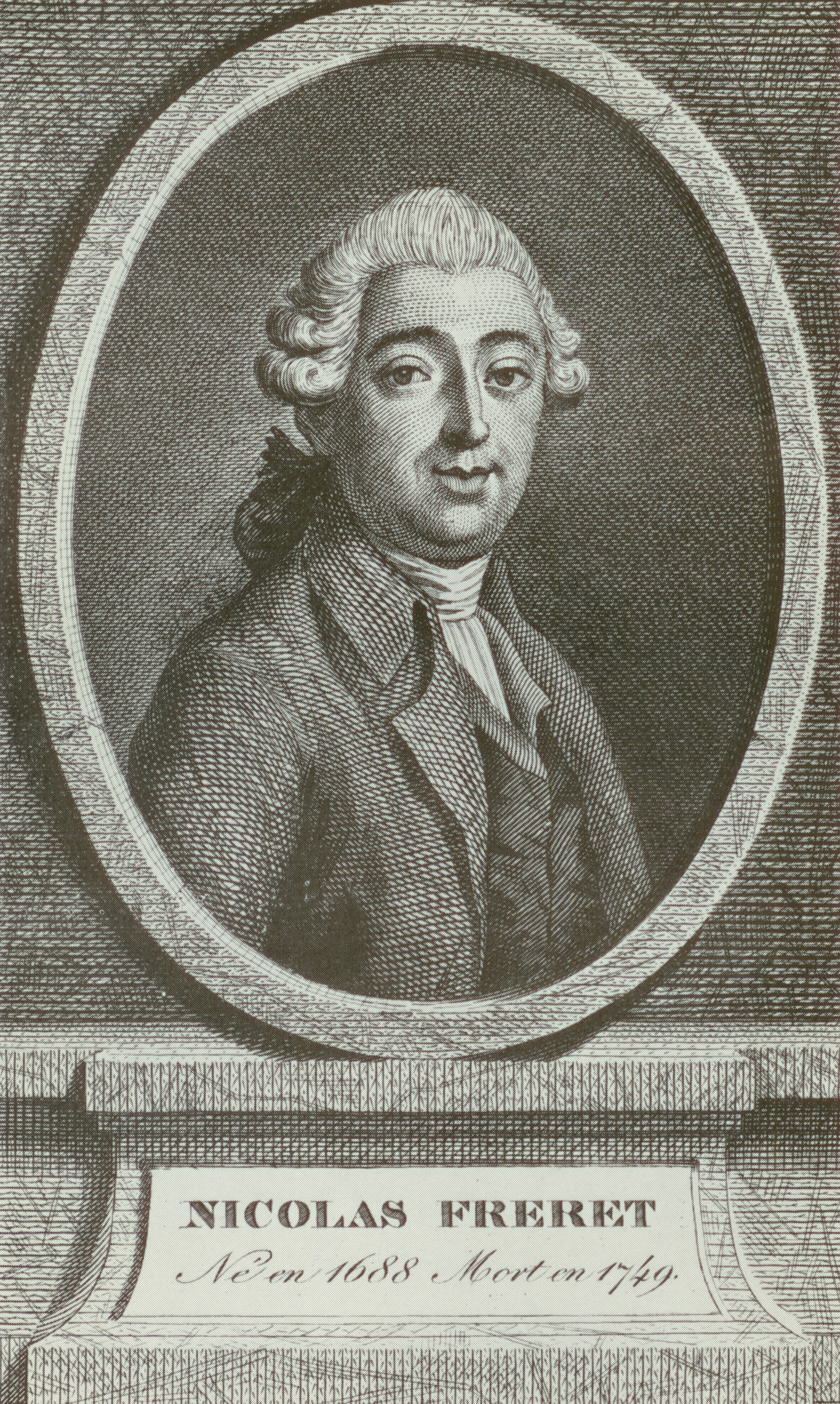 Nicolas Freret, 18th century print